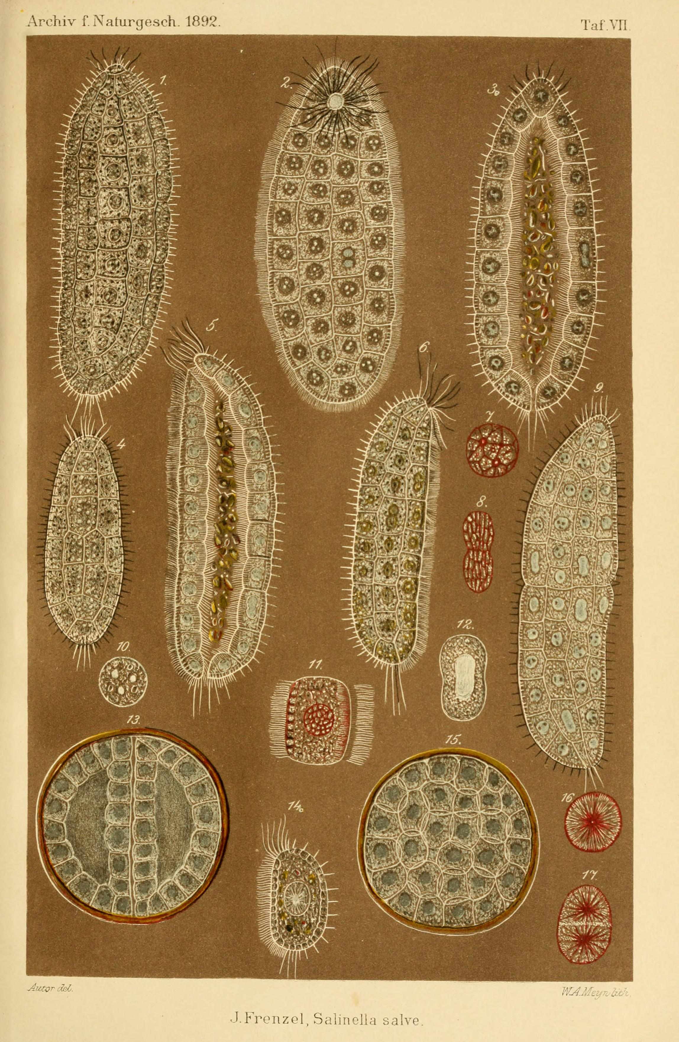 Salinella salve (Monoblastozoa), Plate VII from the original description by J. Frenzel (1892)